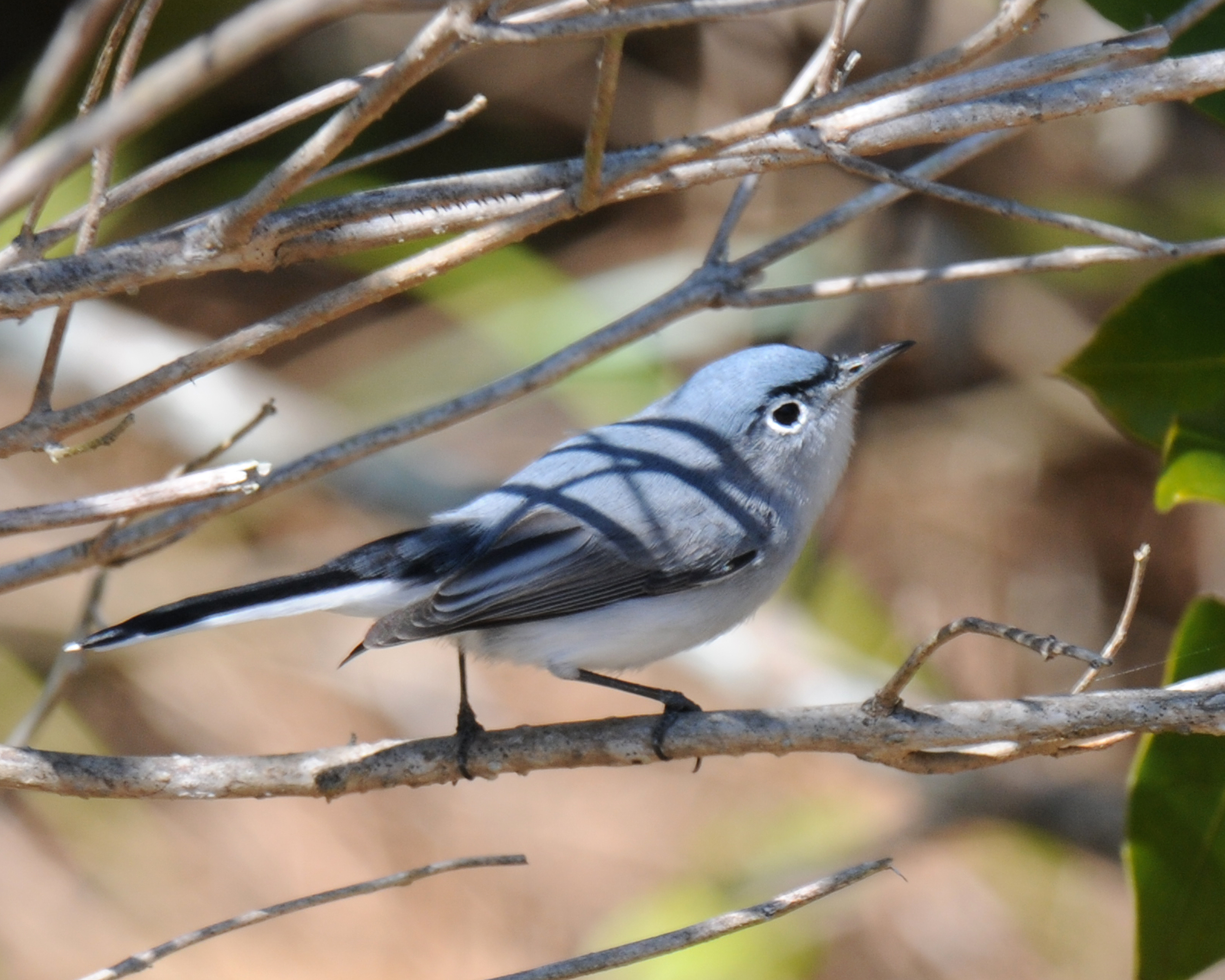 Male Blue-gray Gnatcatcher at Cape Romain National Wildlife Refuge in South Carolina. Thank you to Dendroica cerulea for identifying this bird. Photographer: Garry Tucker, USFWS.